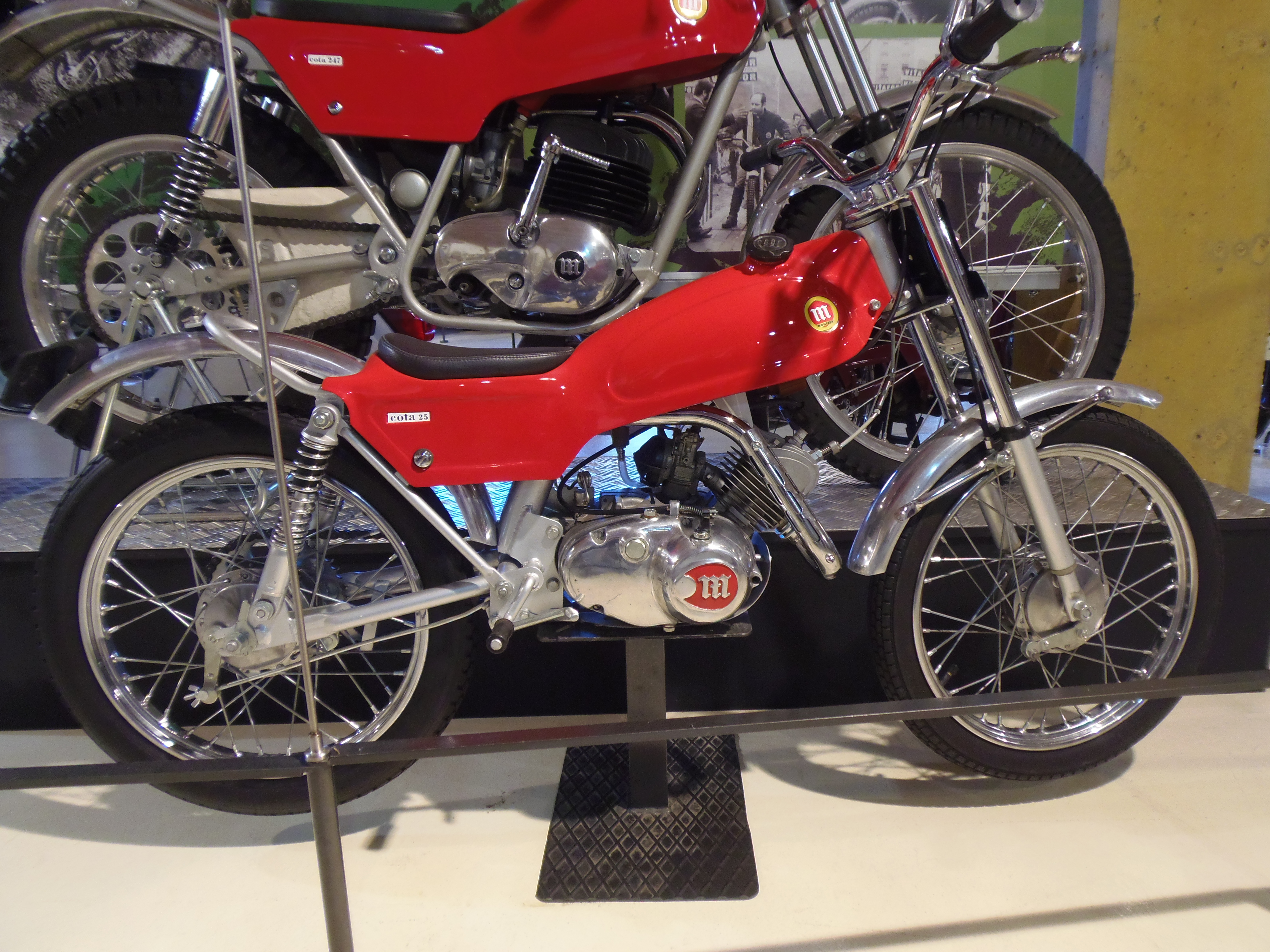 Montesa Cota 25, 49cc (1971)